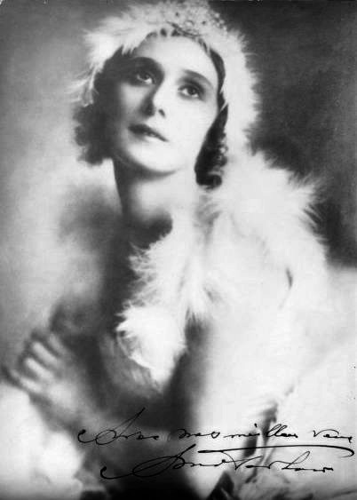 Anna Pavlova in costume for The Dying Swan, Buenos Aires, c. 1928, by Frans van Riel. With an autograph.